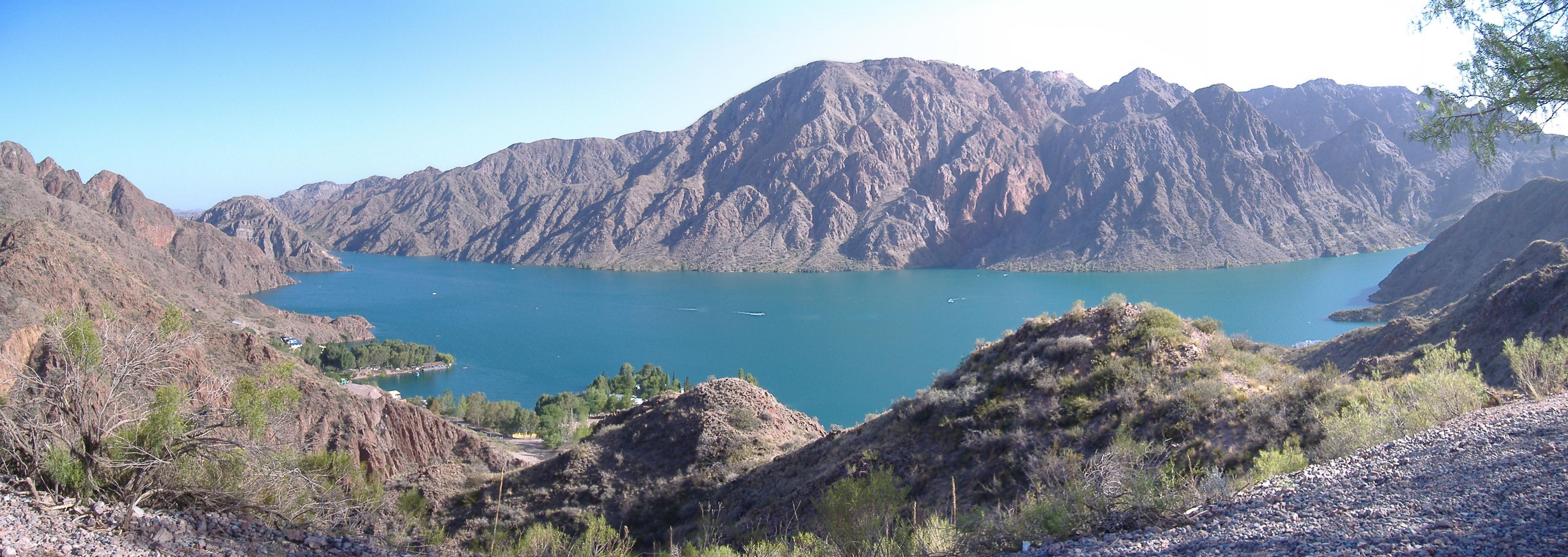 The reservoir of Los Reyunos, on the Diamante River, in San Rafael, Mendoza, Argentina